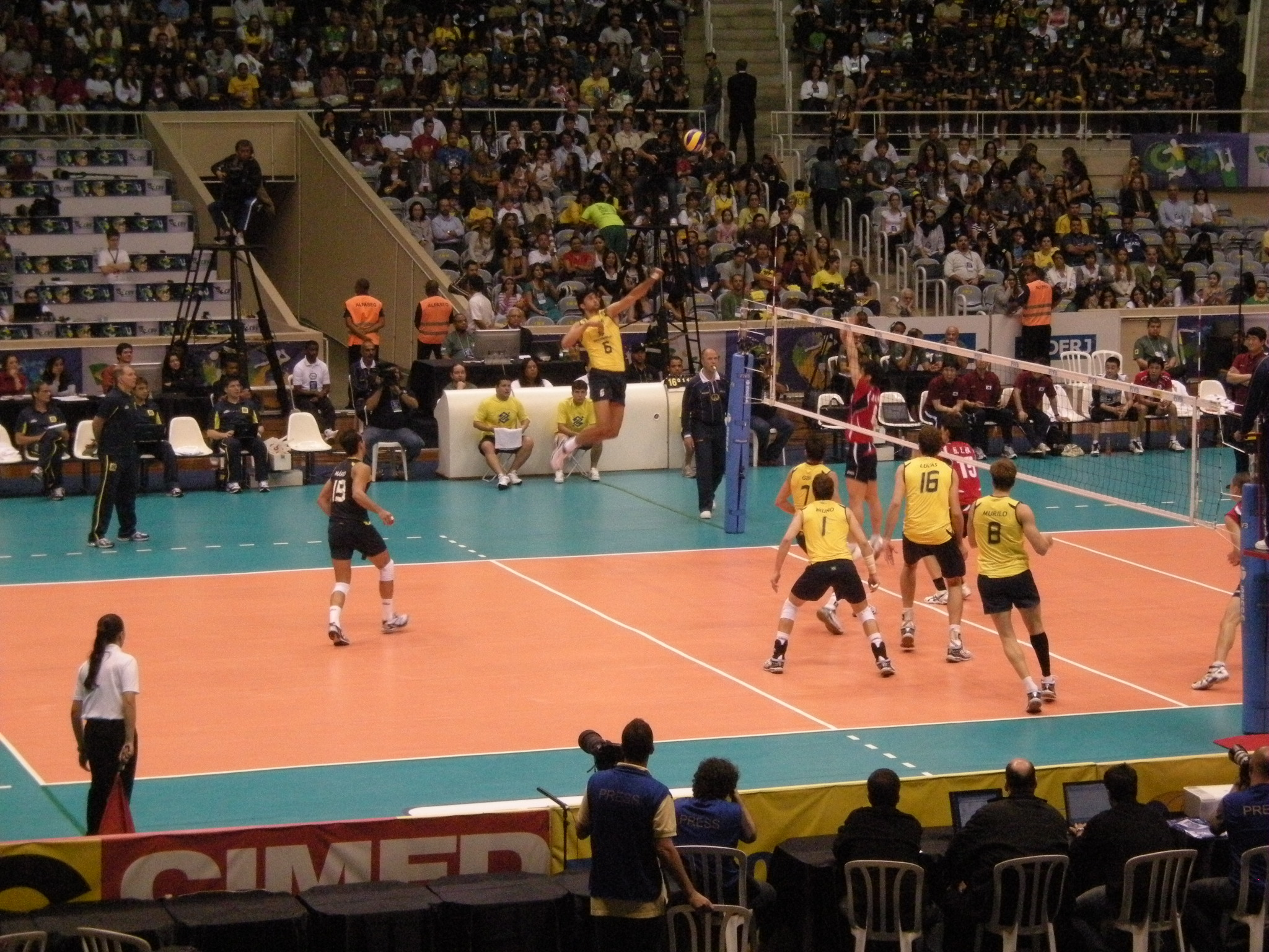 Volleyball match - Brazil Vs South Korea FIVB World League 2010